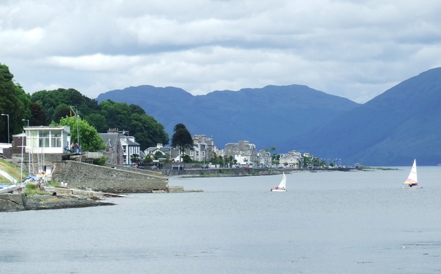 IBSC Isle of Bute Sailing Club, with Ardbeg Point beyond.